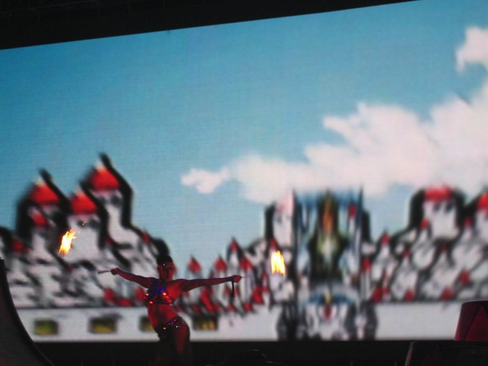 concert